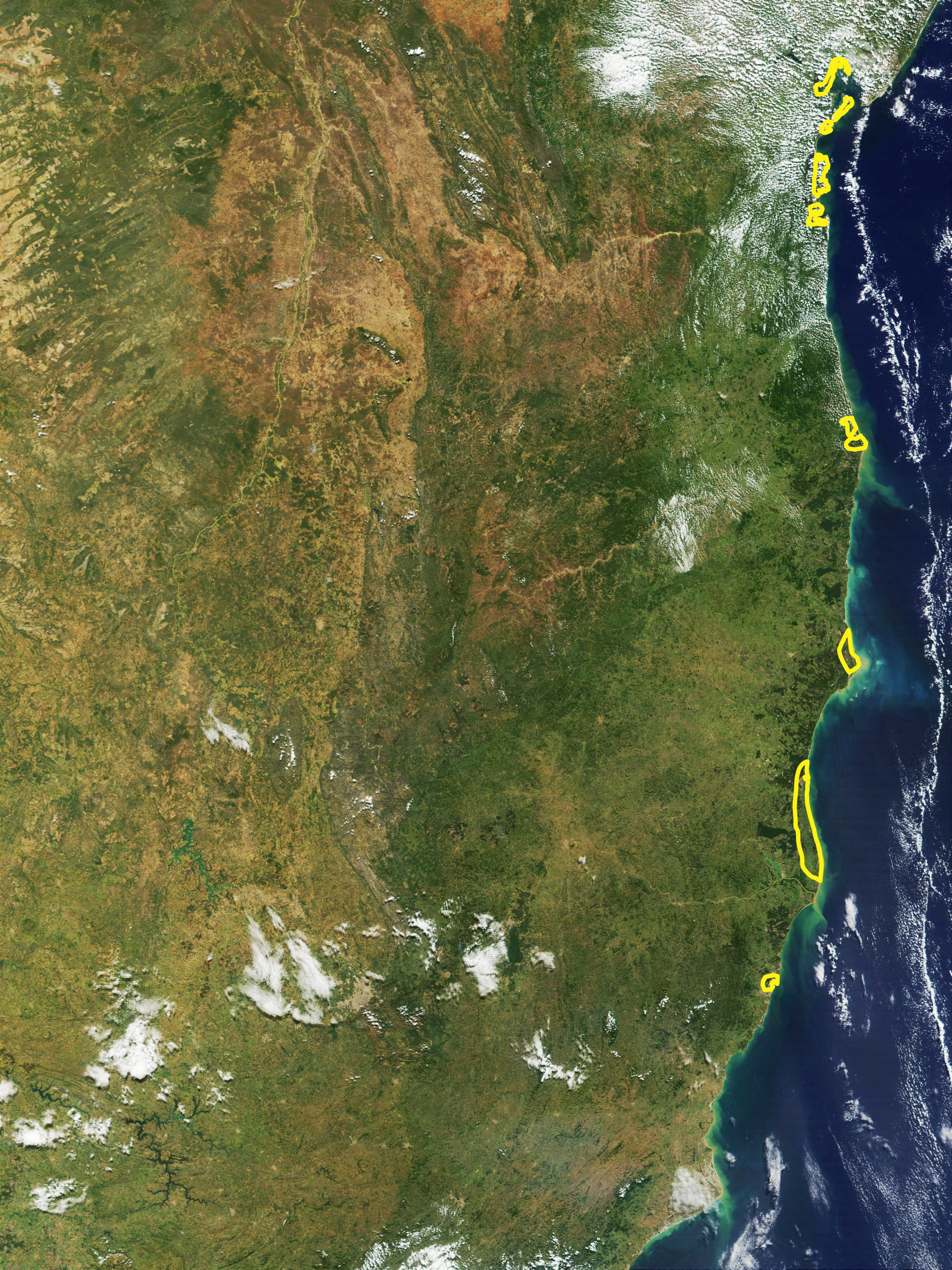 Bahia Mangroves ecoregion as defined by WWF. The yellow line encloses the ecoregion limits. I, Miguelrangeljr, made the limits with Corel Draw X6. Adjustments in color to show forests remainings.